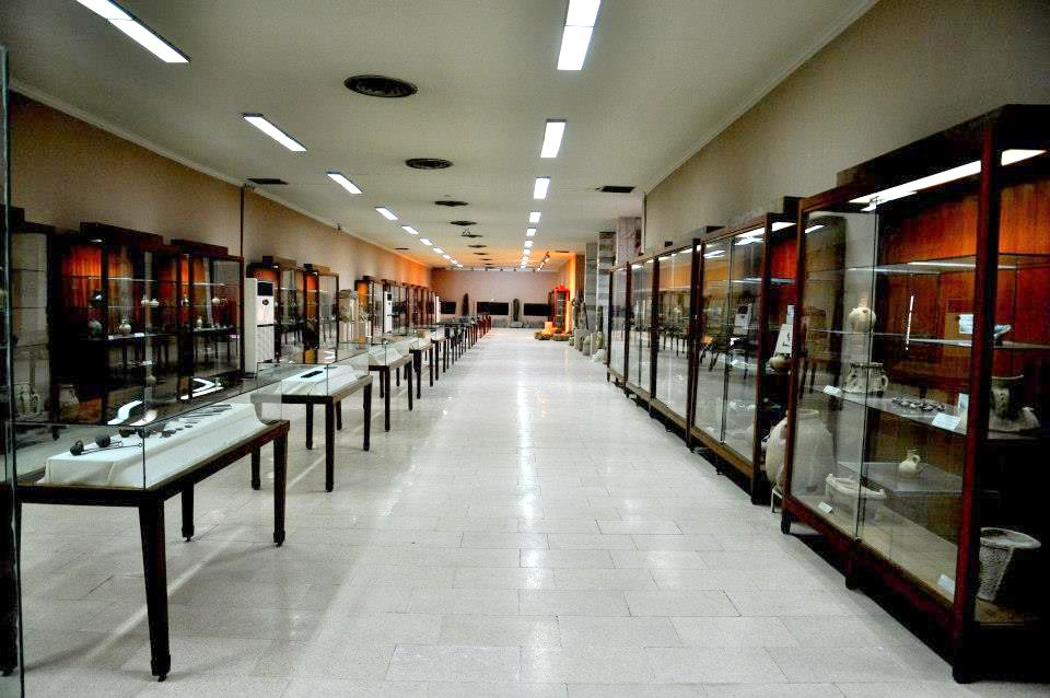 This is one of the two large halls of the Sulaymaniyah Museum.